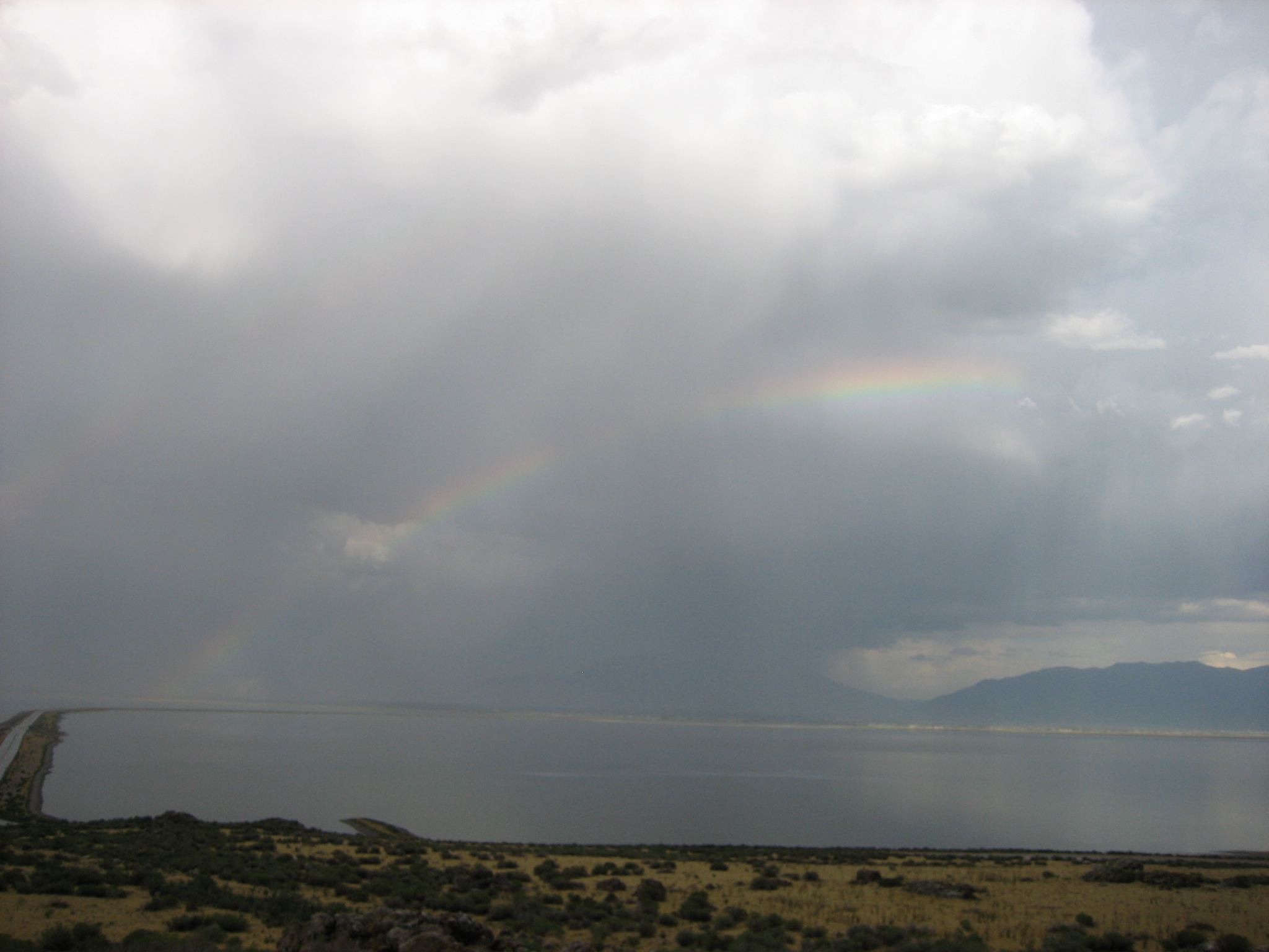 View of Antelope Island causeway